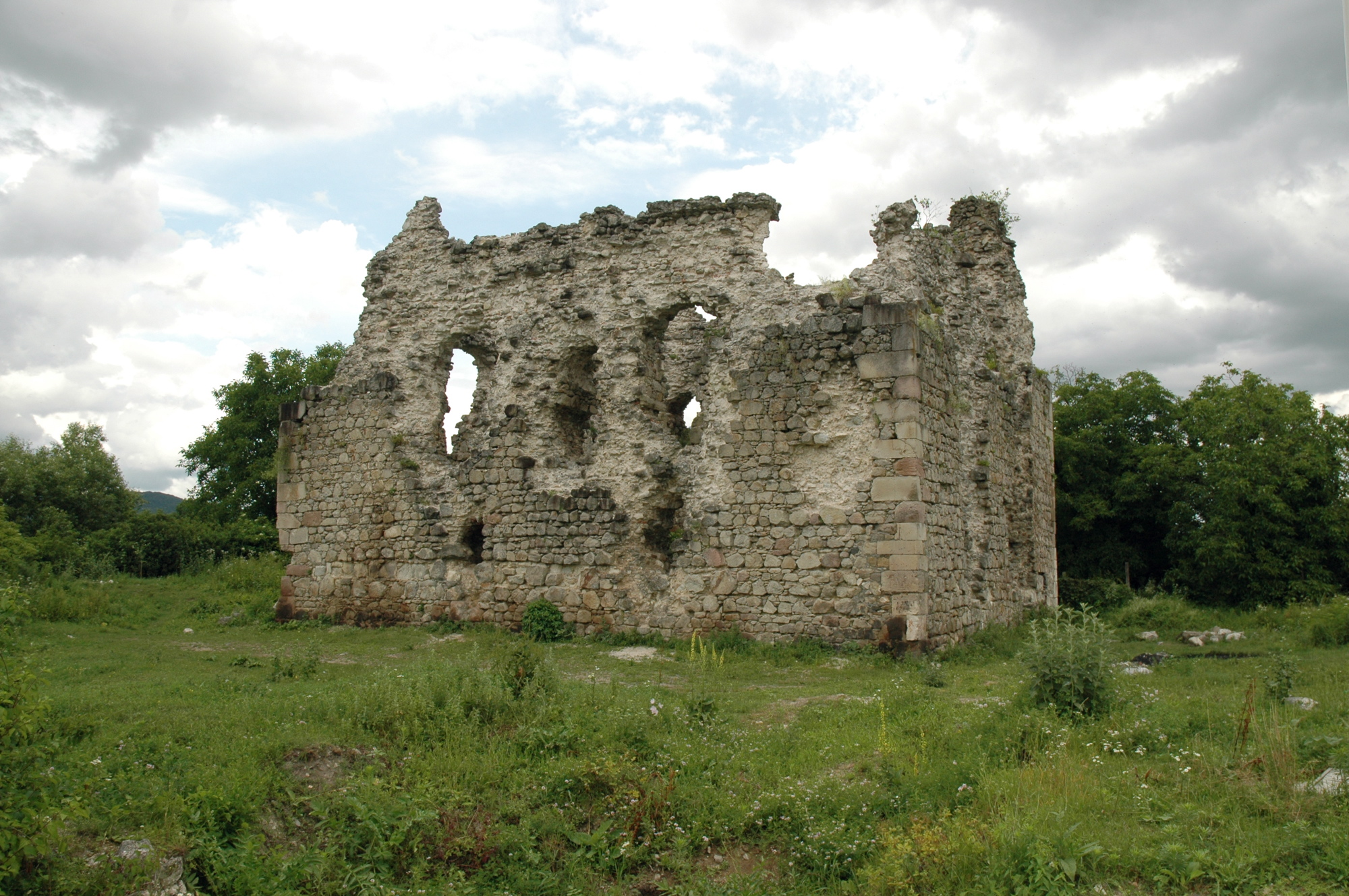 Ruins of Serednie castle (Serednie, Transcarpathian region, Ukraine)